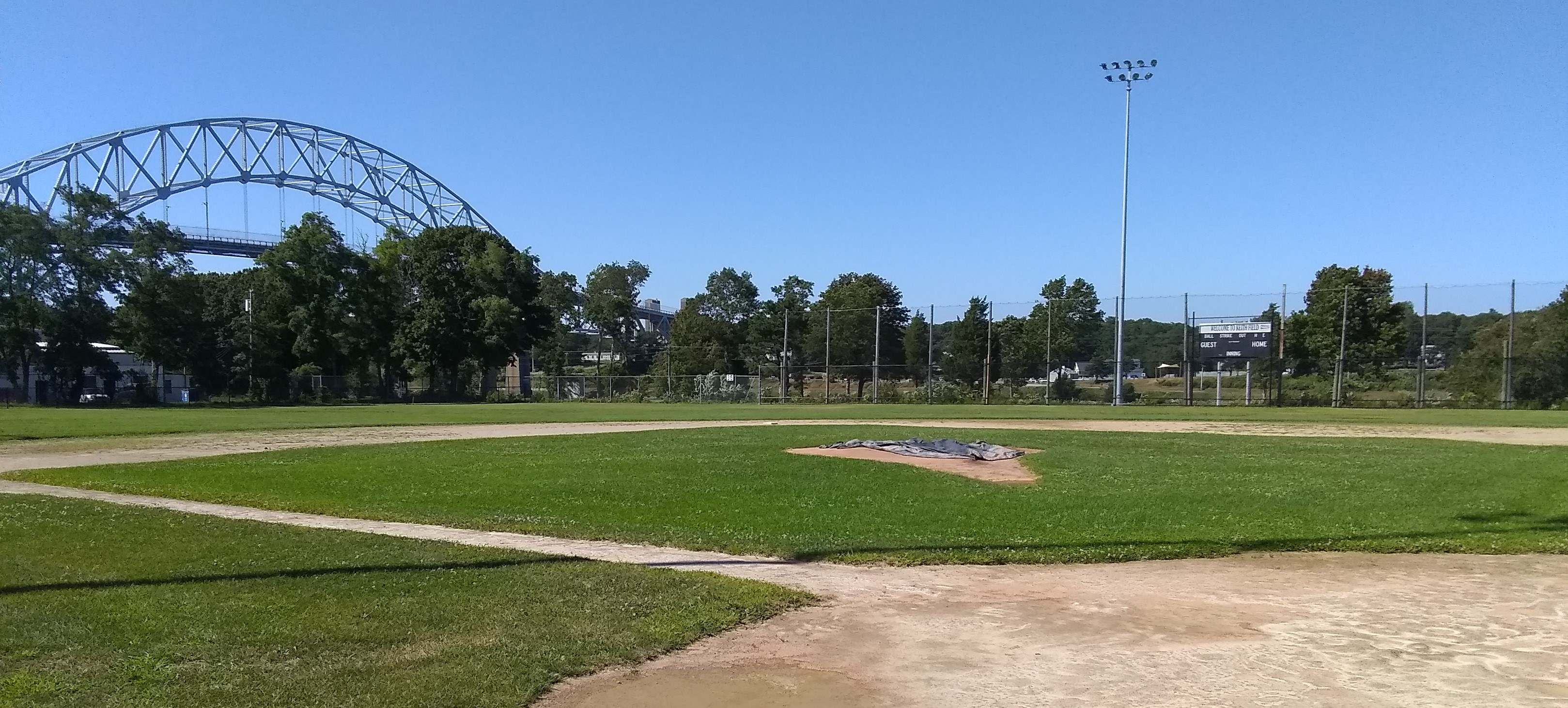 Keith Field, Sagamore, Massachusetts, 2019